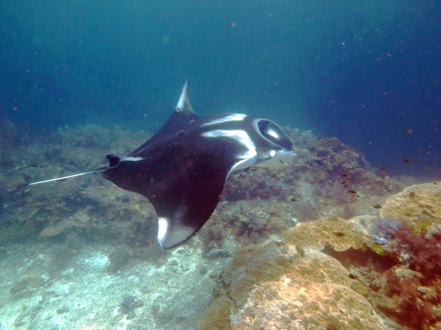 Manta birostris